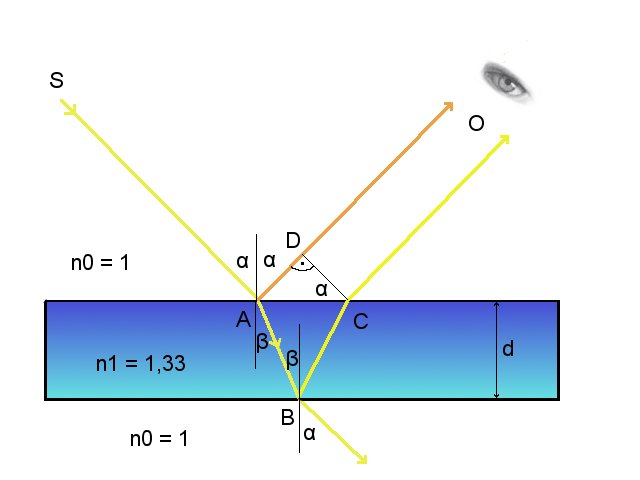 Interference pattern creation at light reflection from thin water film in air